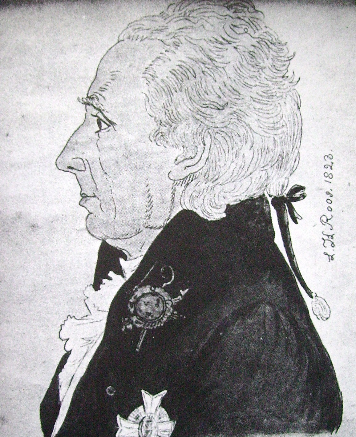 Picture of Lars August Mannerheim, Swedish official